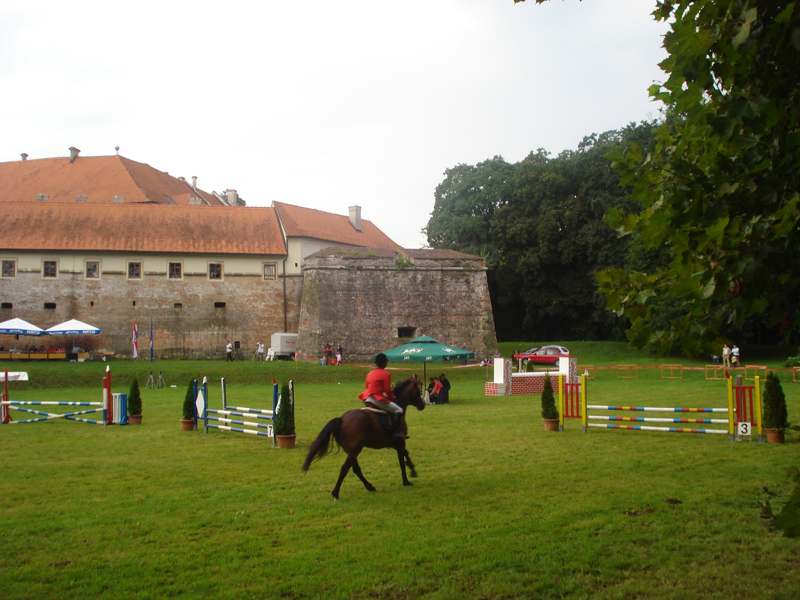 Equestrian show jumping competition at Zrinski castle in Čakovec (Croatia), 2010